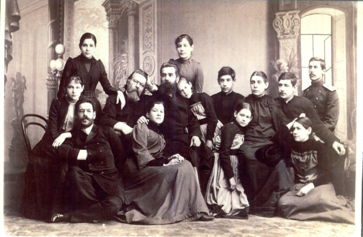 Семья Вологодских дворян Зубовых. Семья Юлия Михайловича и Софьи Петровны Зубовых ~ в 1890 г. Слева направо: Нина, Владимир, Елизавета (стоит). Михаил Михайлович, Мария, Юлий Михайлович, Любовь, Екатерина (стоит), Михаил, Лариса, Софья Петовна, Петр, Ольга, Юлий. Пётр Юльевич Зубов (1871—1942) — земский начальник, товарищ головы города Вологды (1918), член Временного правительства Северной области (1918—1920), актёр провинциальных театров.